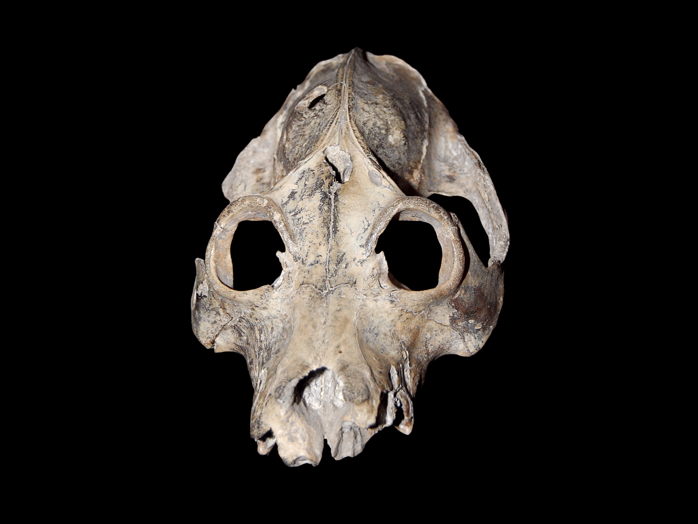 Palaeopropithecus maximus skull